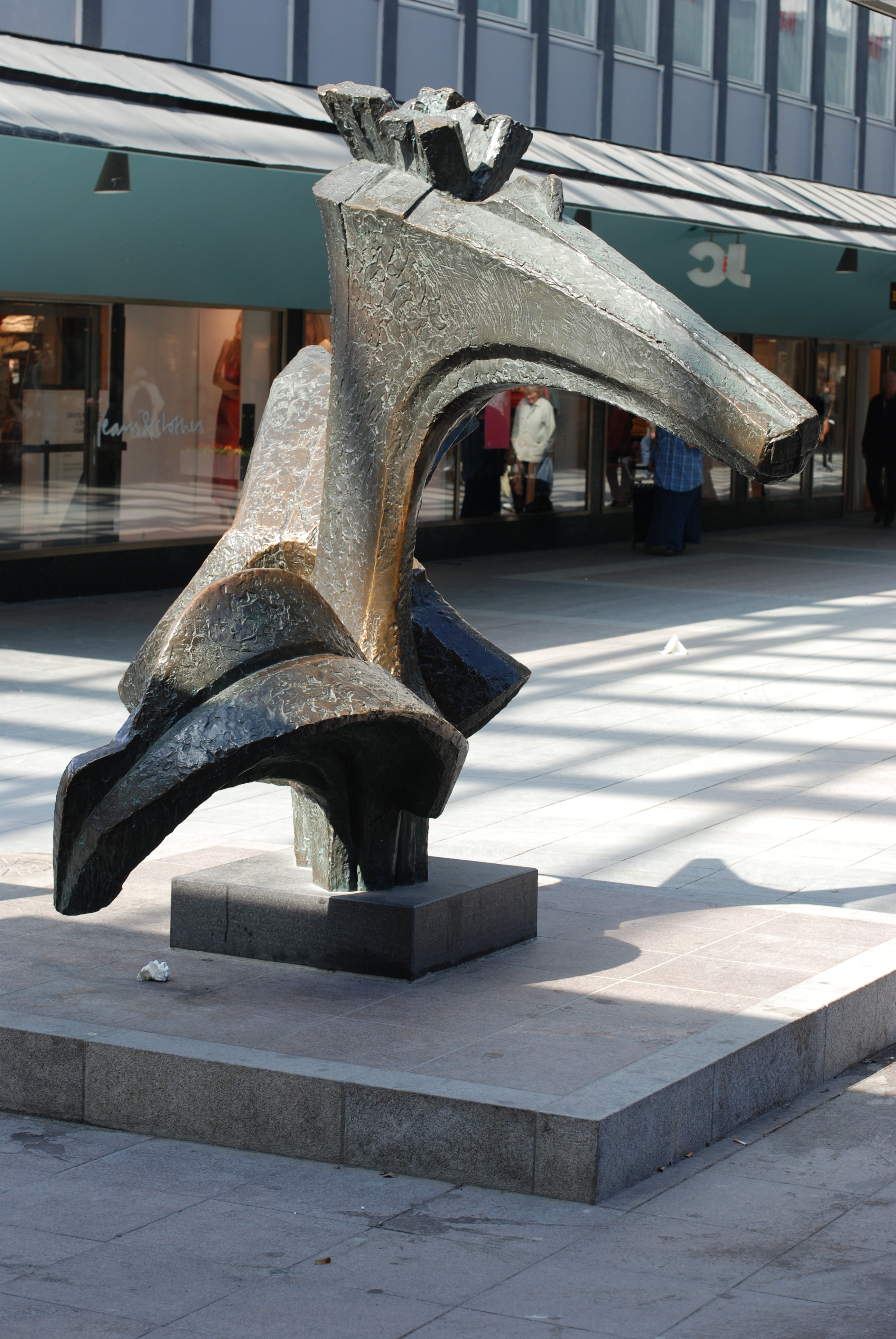 Unnamed sculpture by Margot Hedeman in Vällingby, Sweden